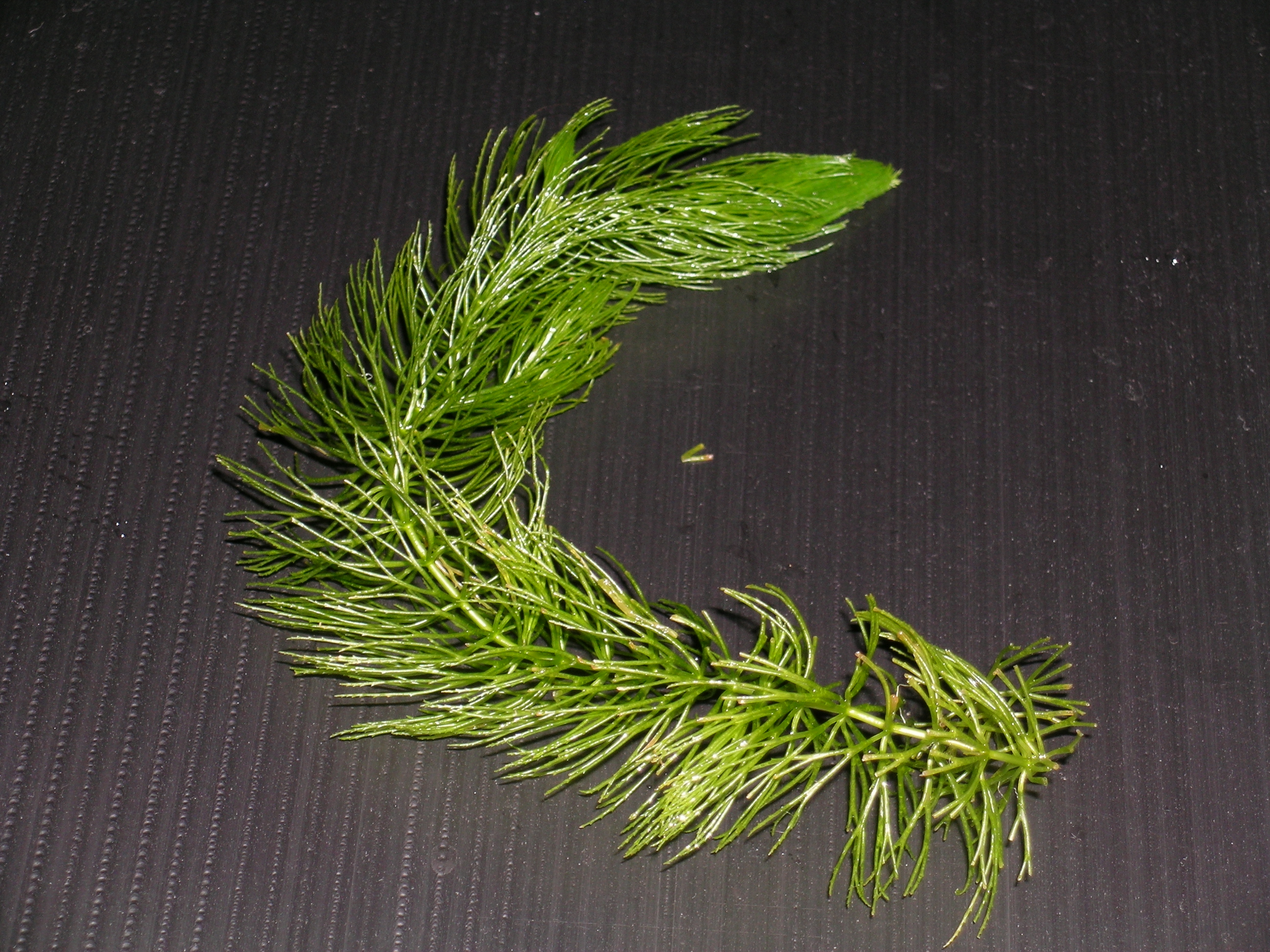 マツモと呼ばれる水草。"Hornwort" from Japan. In Japanese called “kingyo-mo”(kingyo: goldfish; mo: waterweed). A very popular aquatic plant in Japan. Almost aquarium cultivate to with goldfish. It is one's private property. Photograph taken in my home. photo: S.Tanaka